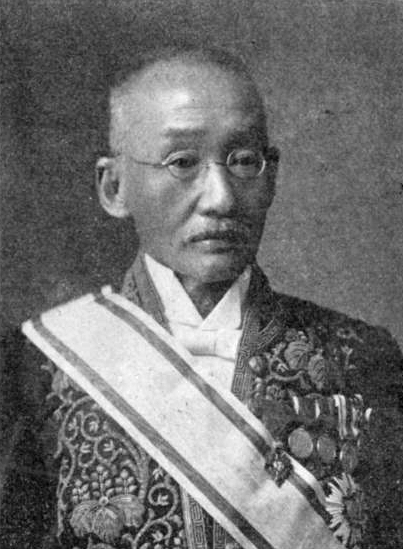 Watanabe Renkichi